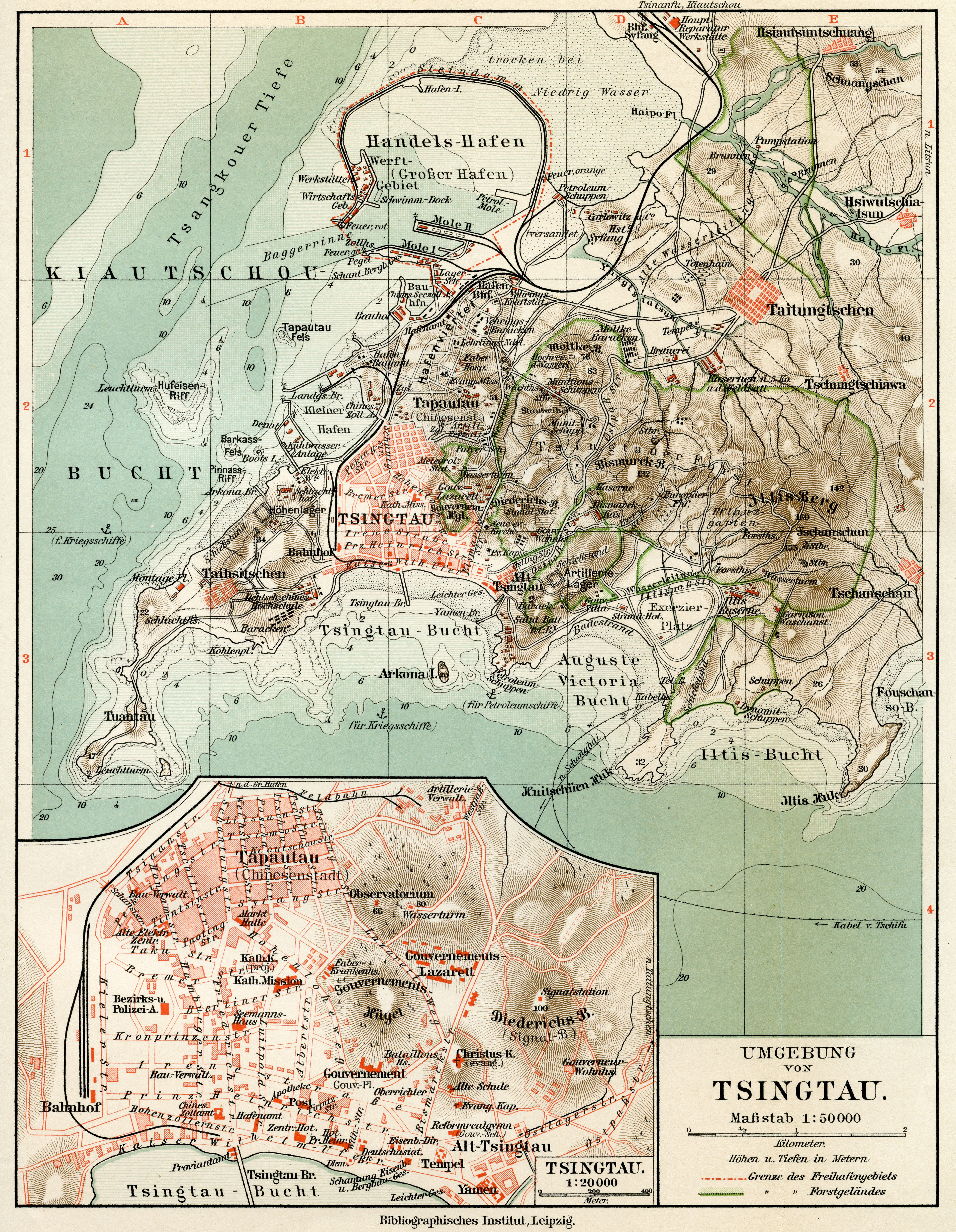 Map of German colony of Tsingtau, 1912